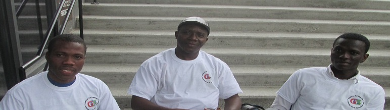 GDS 1st Anniversary in Philadelphia, PA. From the left to the right: Senam Sdzro, Brad K Hounkpati and Fidel Game, all founding members